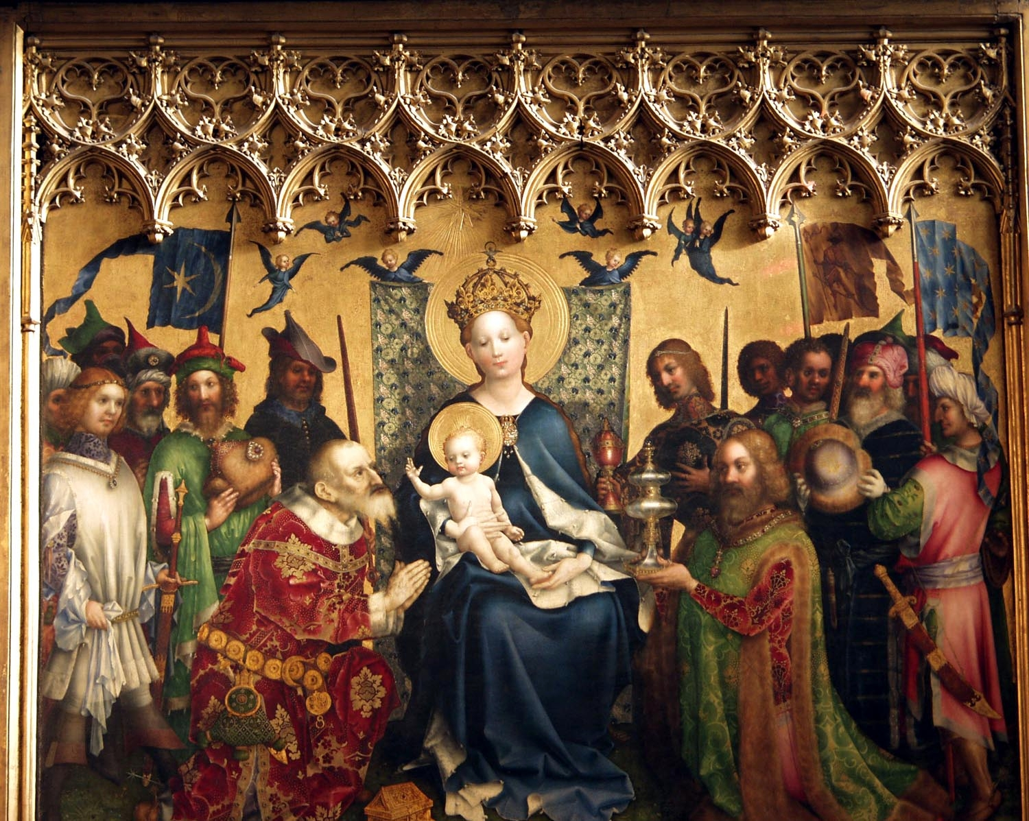 Altarpiece of the City's Patron Saints (The Dombild Altarpiece). Tempera on oak, 94in x 14in. Cologne Cathedral